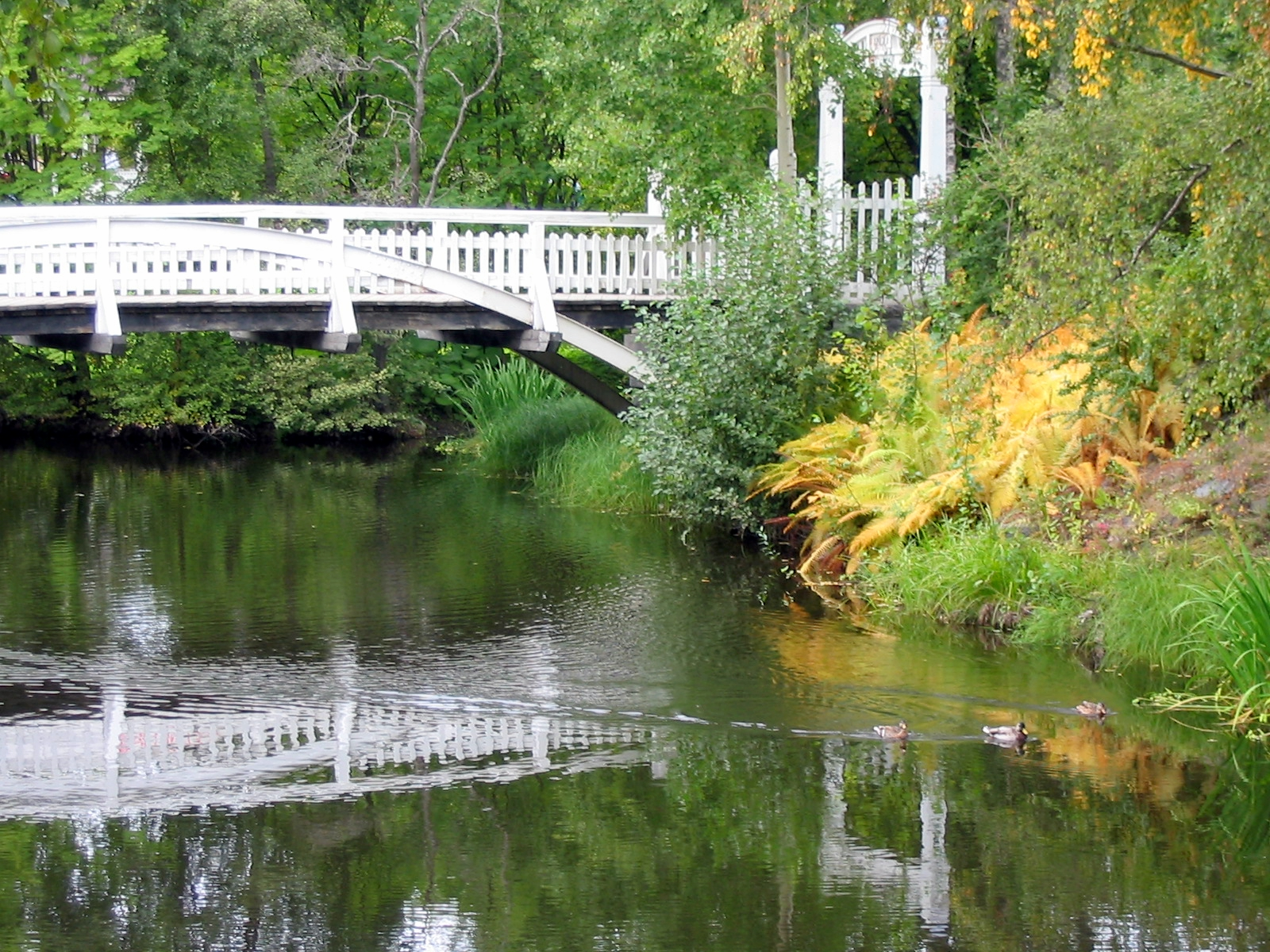 Typical white wooden bridge in the Hupisaaret City Park, Oulu, Finland.